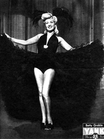 Pin-up photo of Betty Grable for the Nov. 26, 1943 issue of Yank, the Army Weekly, a weekly U.S. Army magazine fully staffed by enlisted men.